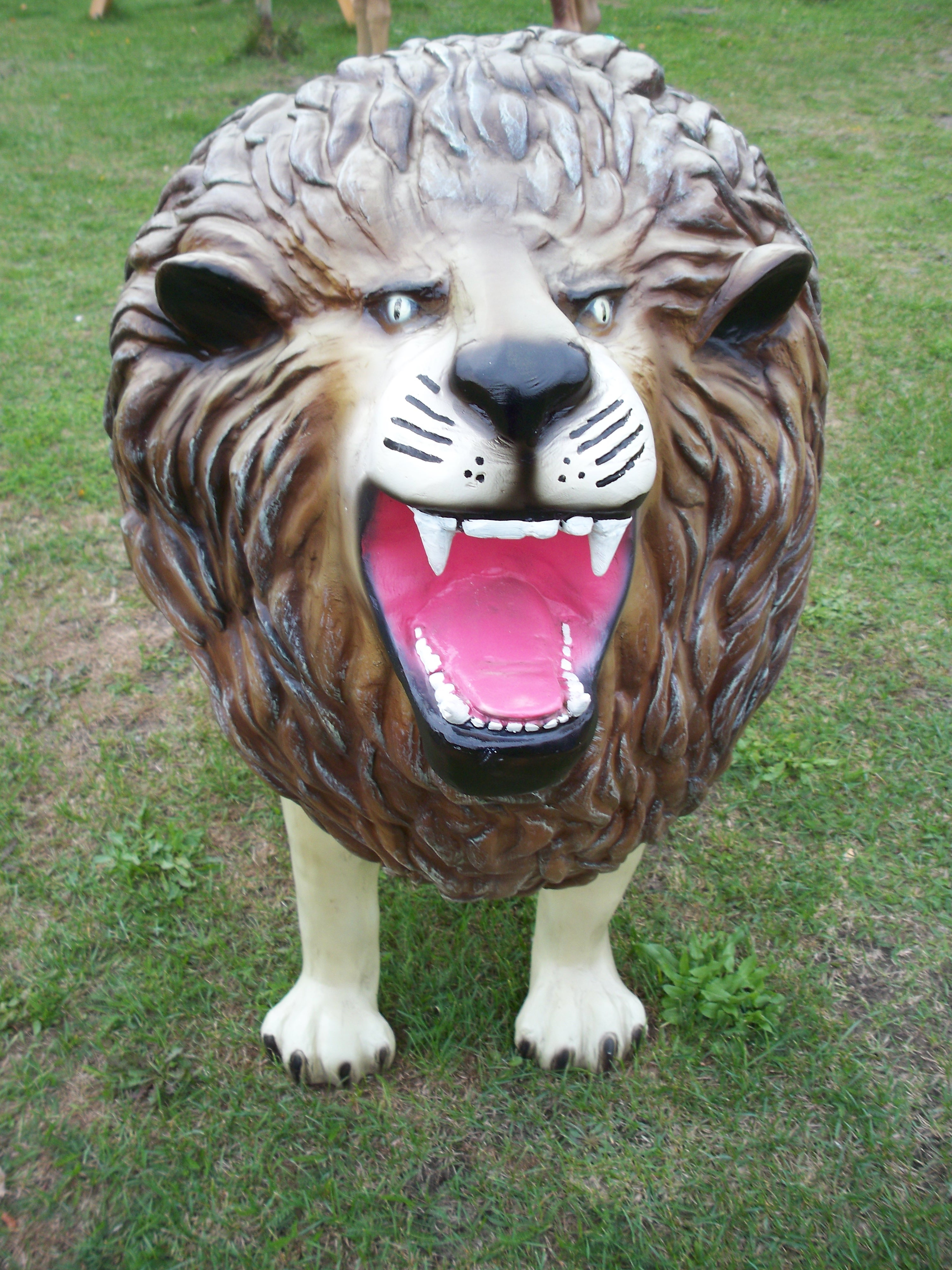 Lion